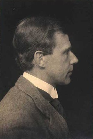 Danish art historian, director of Thorvaldsen's Museum, Mario Krohn (1881-1922)